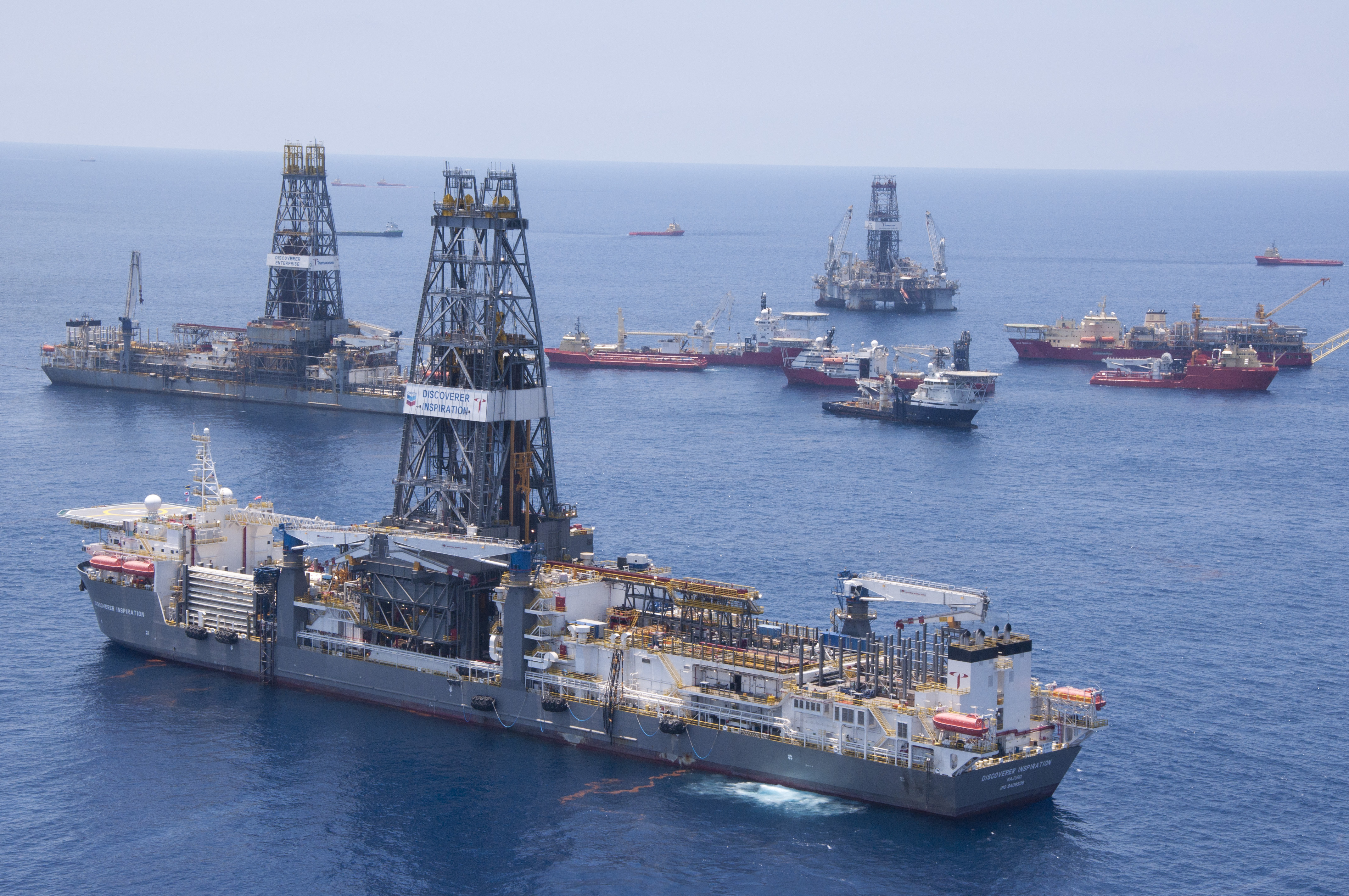 The Transocean drill vessel, Discoverer Inspiration, prepares for drilling operations for the Deepwater Horizon oil response in the Gulf of Mexico, July 10, 2010. The Discoverer Inspiration, an 835-foot ultra-deepwater drilling rig, will lower the capping stack on top of the well to replace the top hat cap that is presently connected to the Discoverer Enterprise